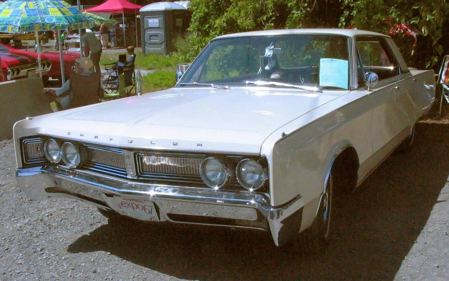 1967 Chrysler Newport photographed in Laval, Quebec, Canada at the Auto classique Laval.